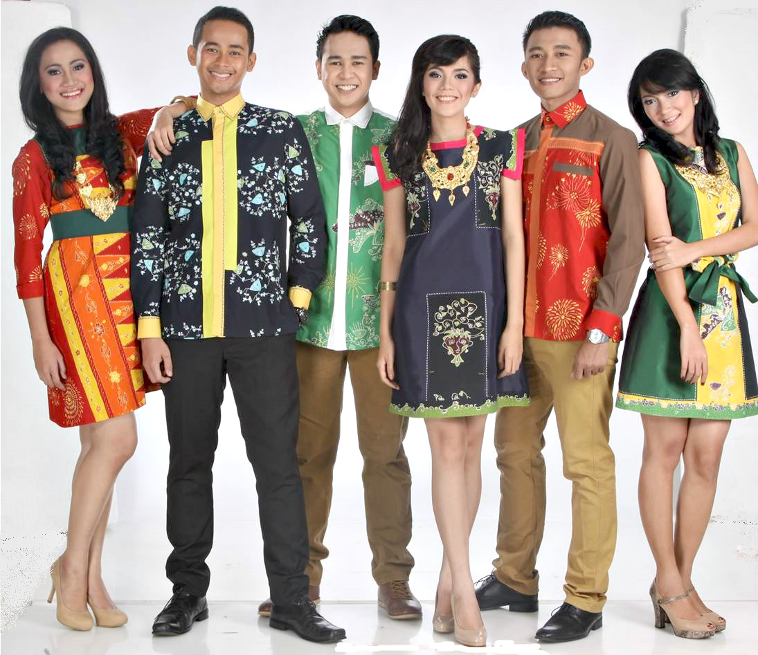 Juara PPBN